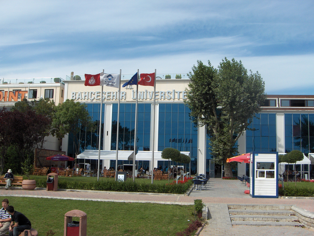 Bahcesehir University front view